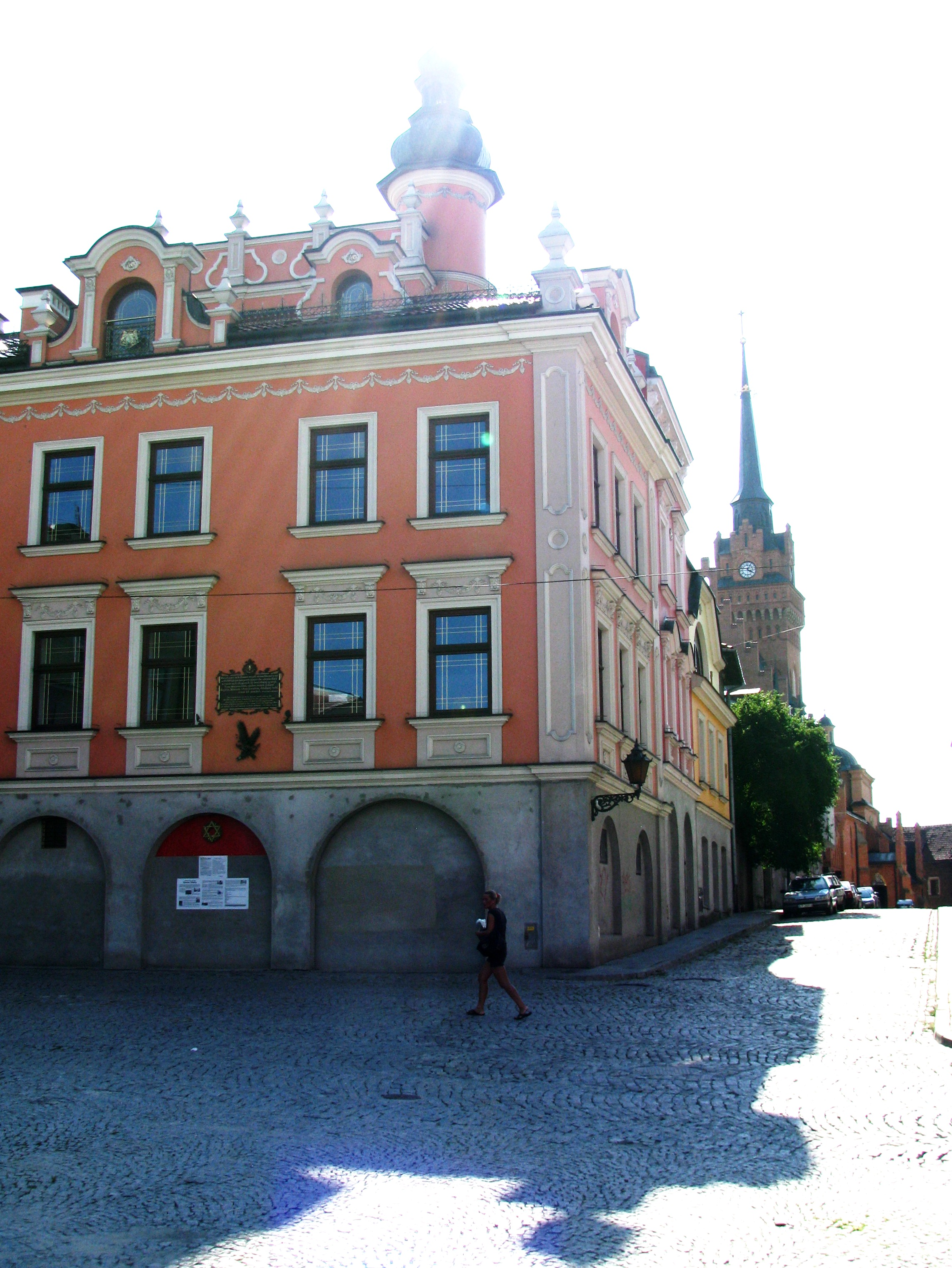 Building that hosts Memorial to those Jews killed in the Tarnów Ghetto.The Scotch Mist Gallery contains many photographs of historic buildings, monuments and memorials of Poland.